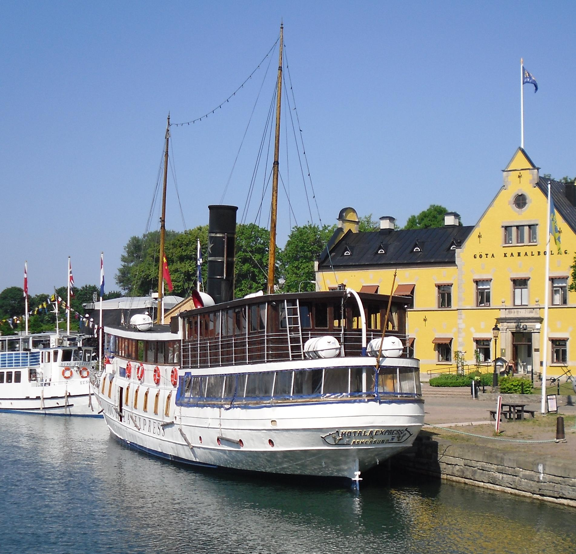 S/S Motala Express at Motala Harbour, Sweden. This is an image of the protected Swedish ship S/S Motala Express, with call sign SFOD .